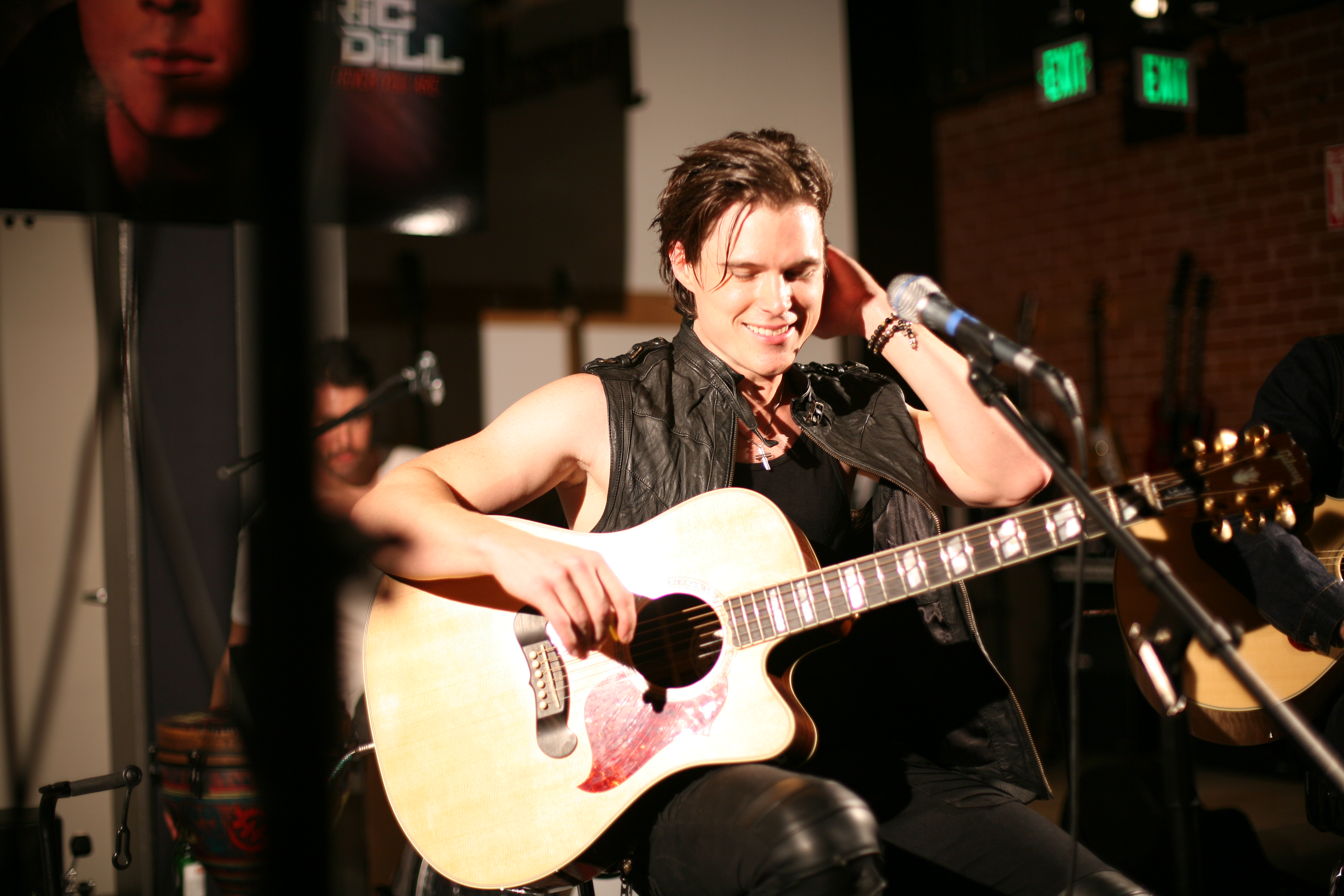 A photo taken on 8th of November 2012 at Eric Dill's Record Release Party at the Gibson Showroom in Beverly Hills, California, the United States.